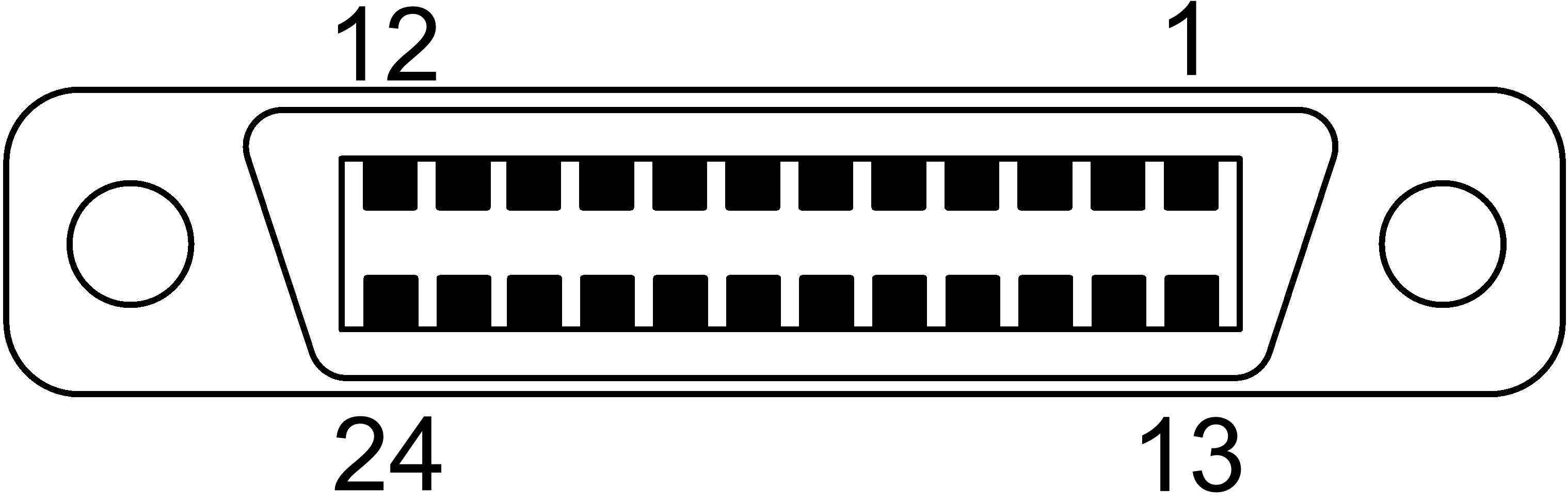 An IEEE-488 connector female